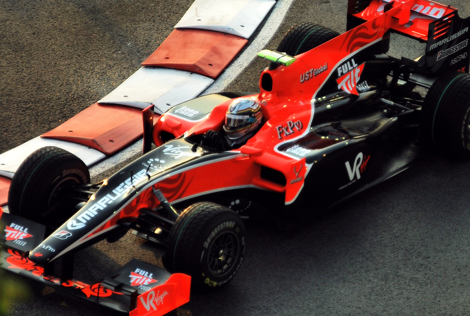 24 September 2010: Jerome d’Ambrosio at turn 16 in his Virgin VR01 Cosworth, free practice 1, Singapore F1 Grand Prix, Marina Bay circuit